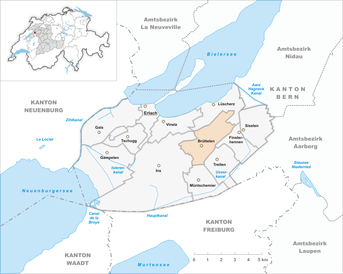 Municipality Brüttelen